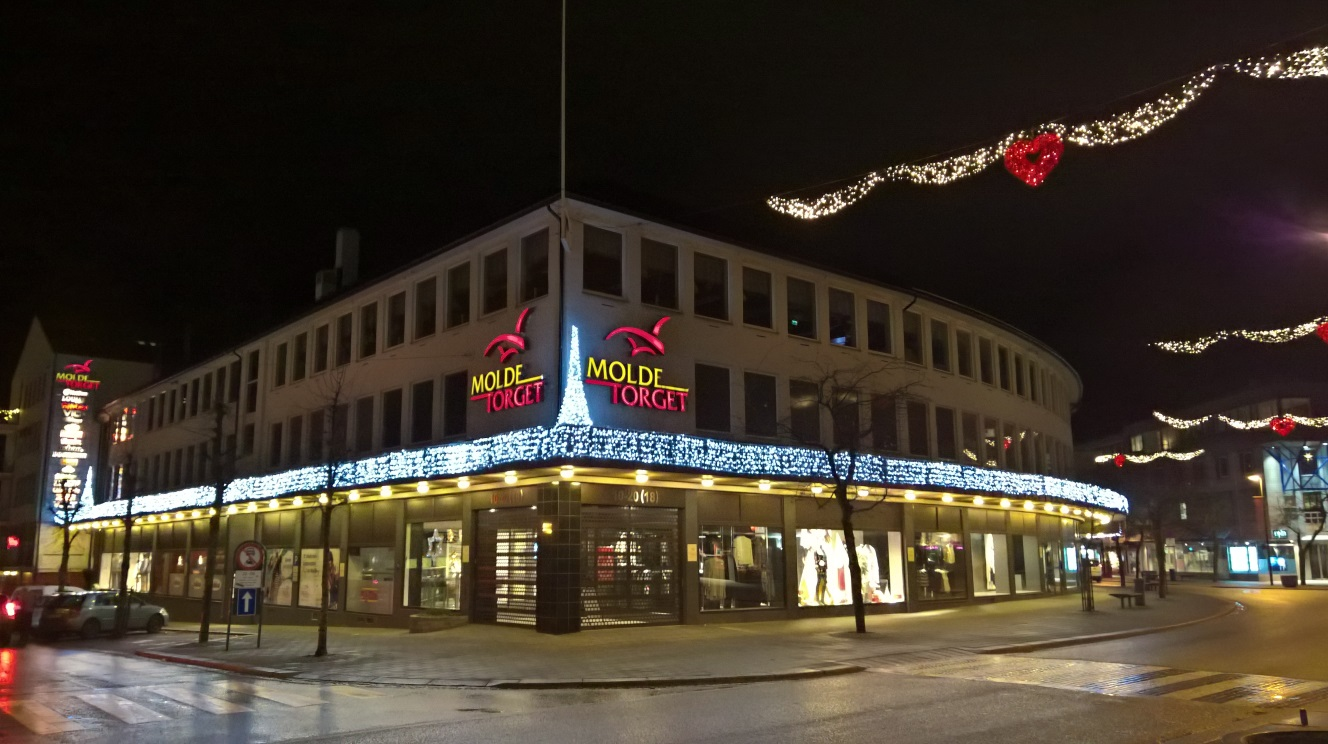 Shopping center in Molde, Norway. Year 2015.